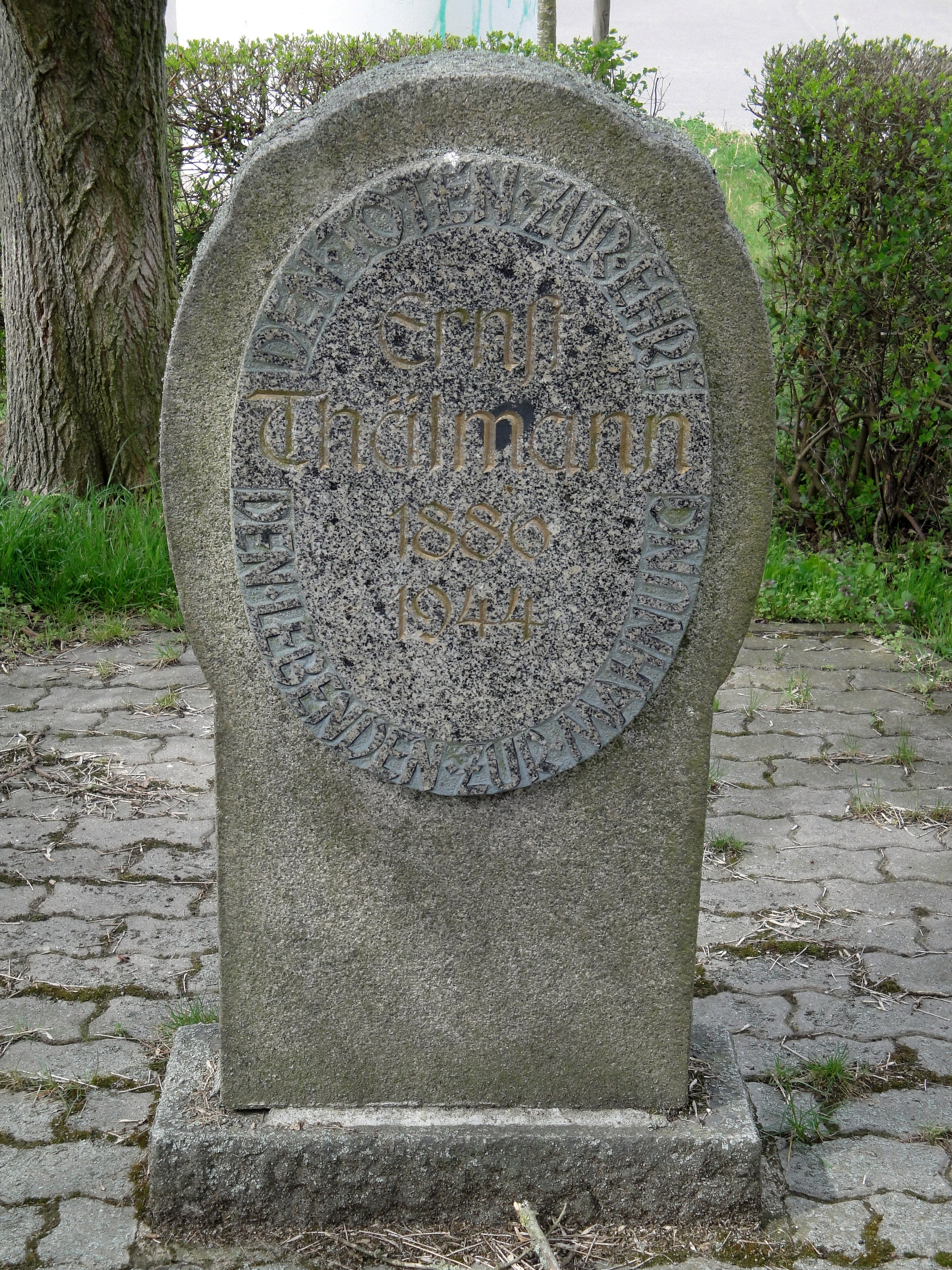 Ernst Thälmann memorial in Wulfen (Landkreis Anhalt-Bitterfeld)